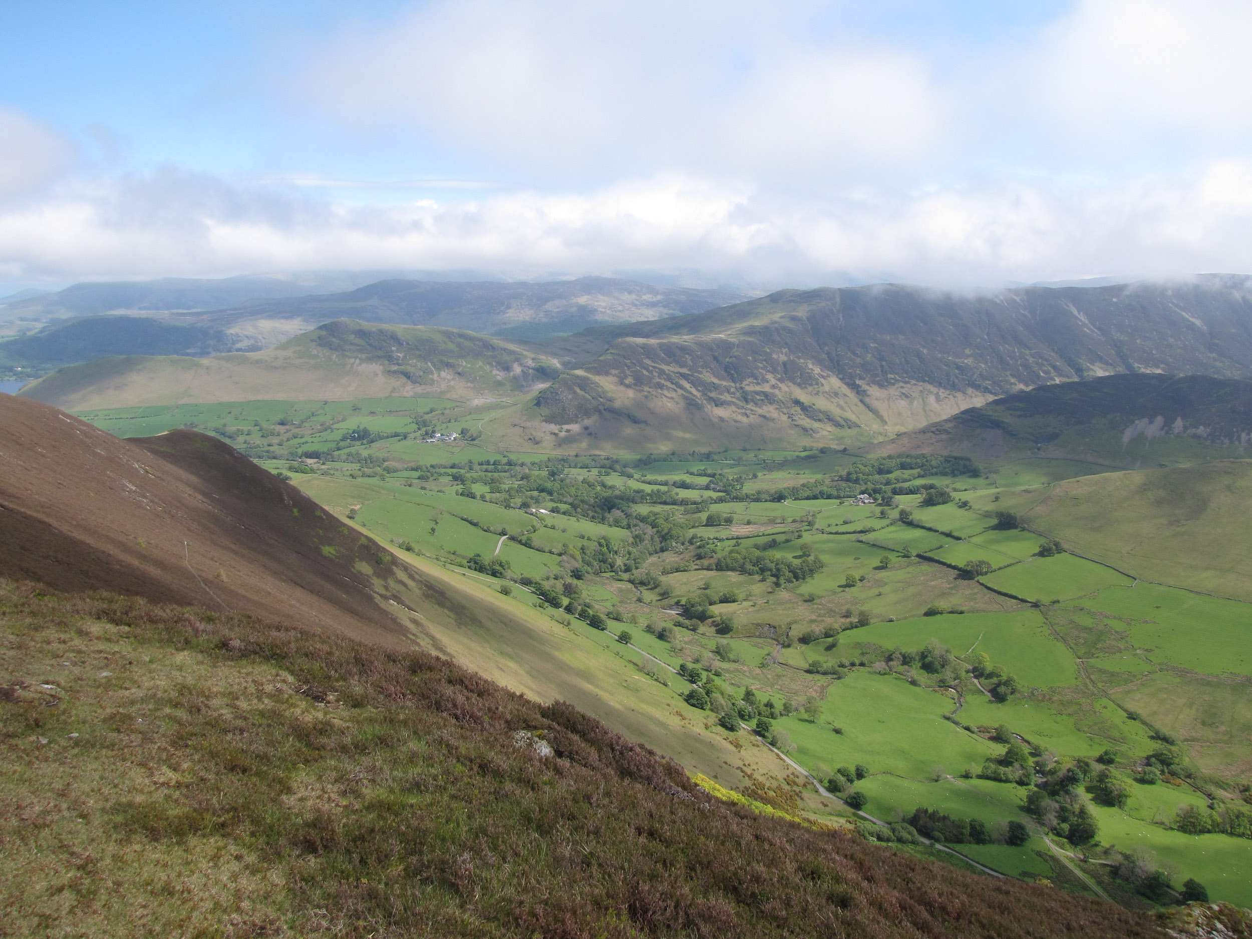 The view from the summit of Ard Crags in the English Lake District showing the Newlands Valley.